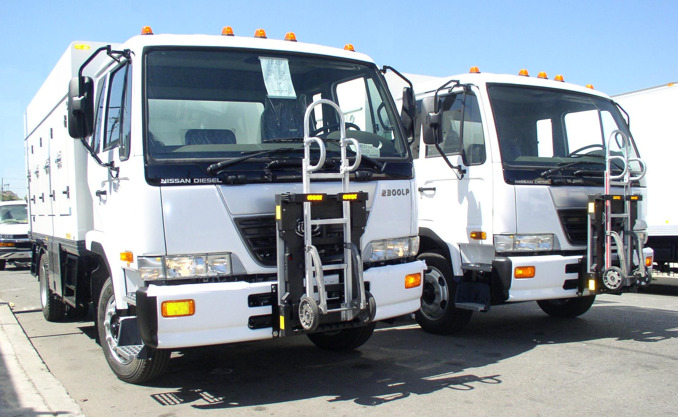 UD Nissan delivery trucks equipped with a new patented retaining apparatus called an HTS Ultra-Rack Hand Truck Sentry System that safely secures and transports hand trucks aboard commercial delivery vehicles.